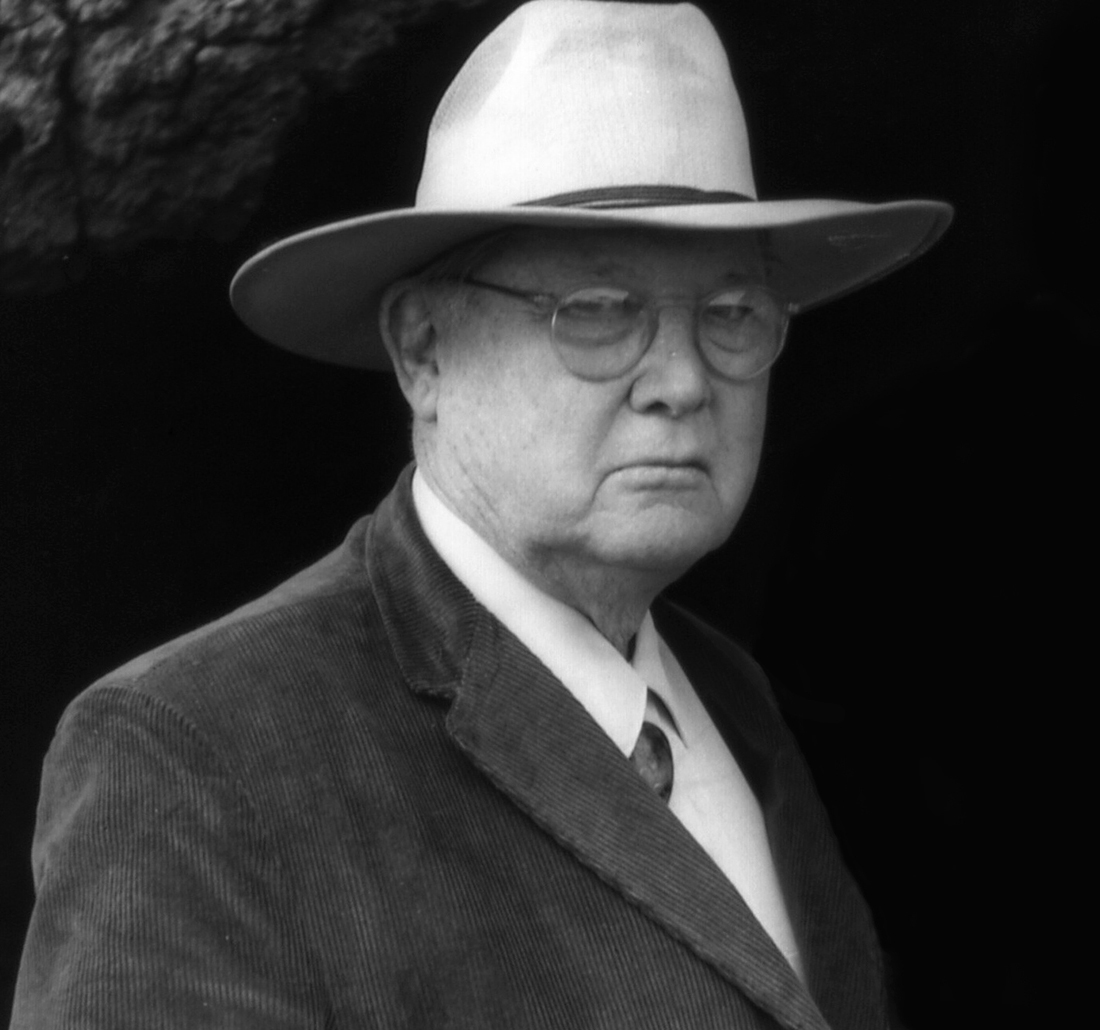 Photograph of author Erle Stanley Gardner